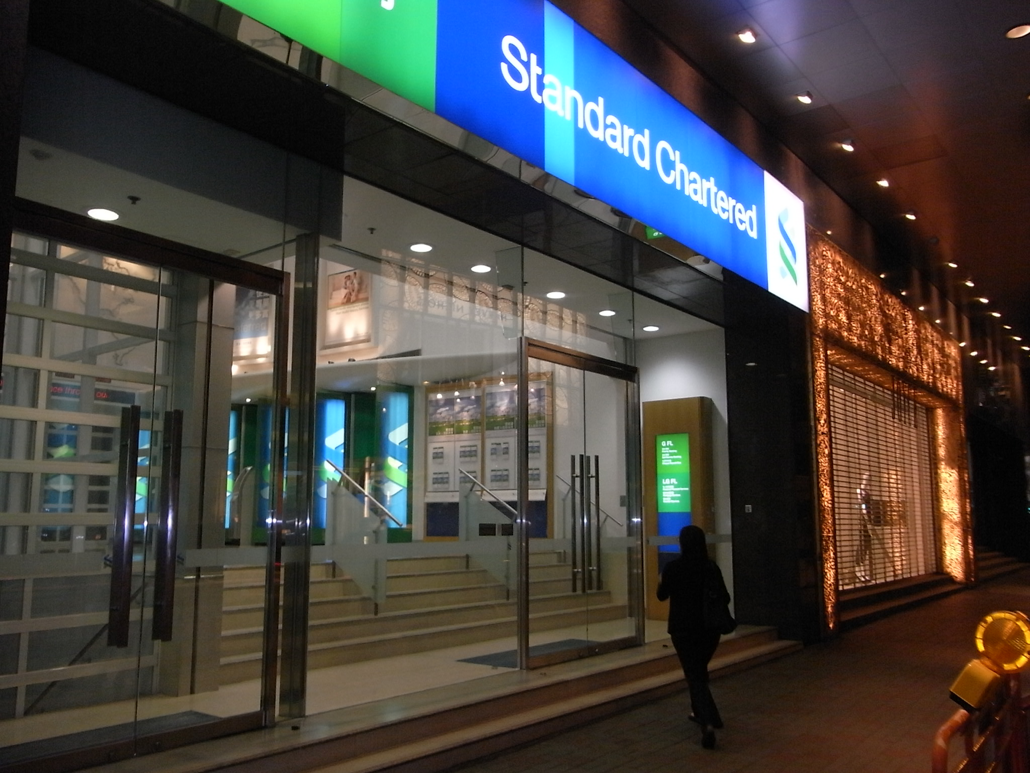 中環2010年9月 皇后大道中 新世界大廈 香港渣打銀行